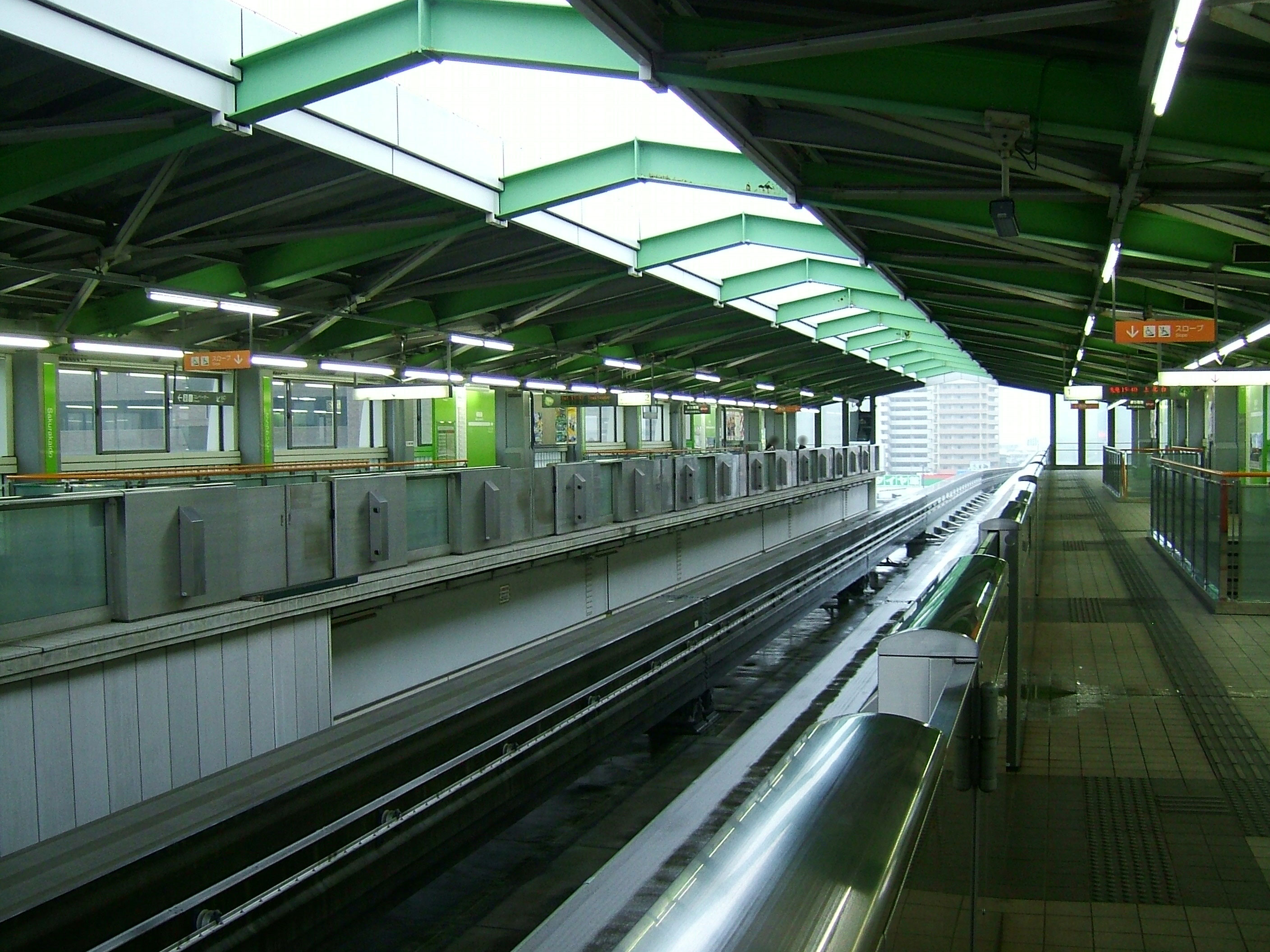 The platforms at Sakurakaidō Station on the Tama Toshi Monorail in Higashiyamato city, Tokyo, Japan